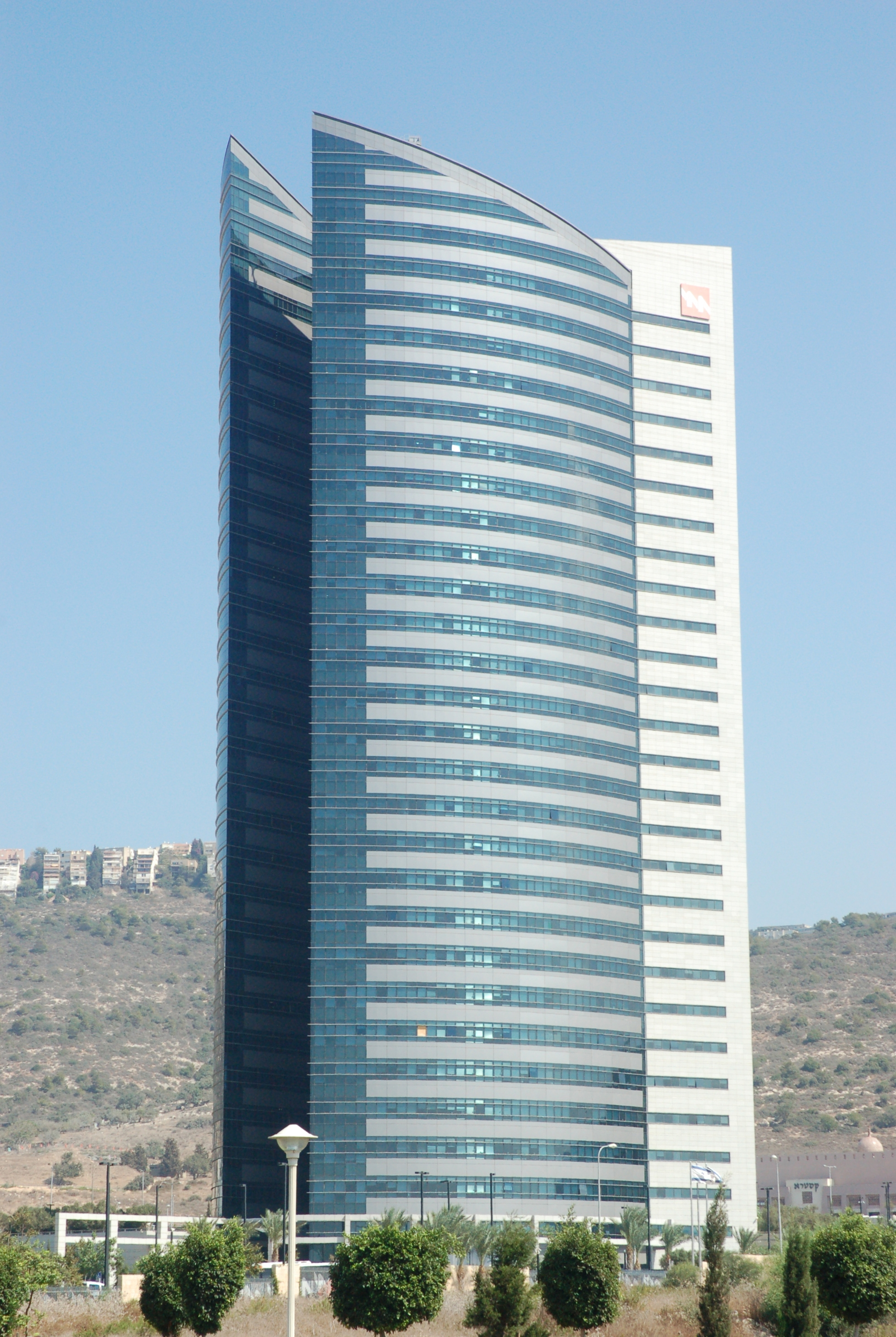 Israel Electric Company Building - Hof HaCarmel - Haifa - 7 October 2007